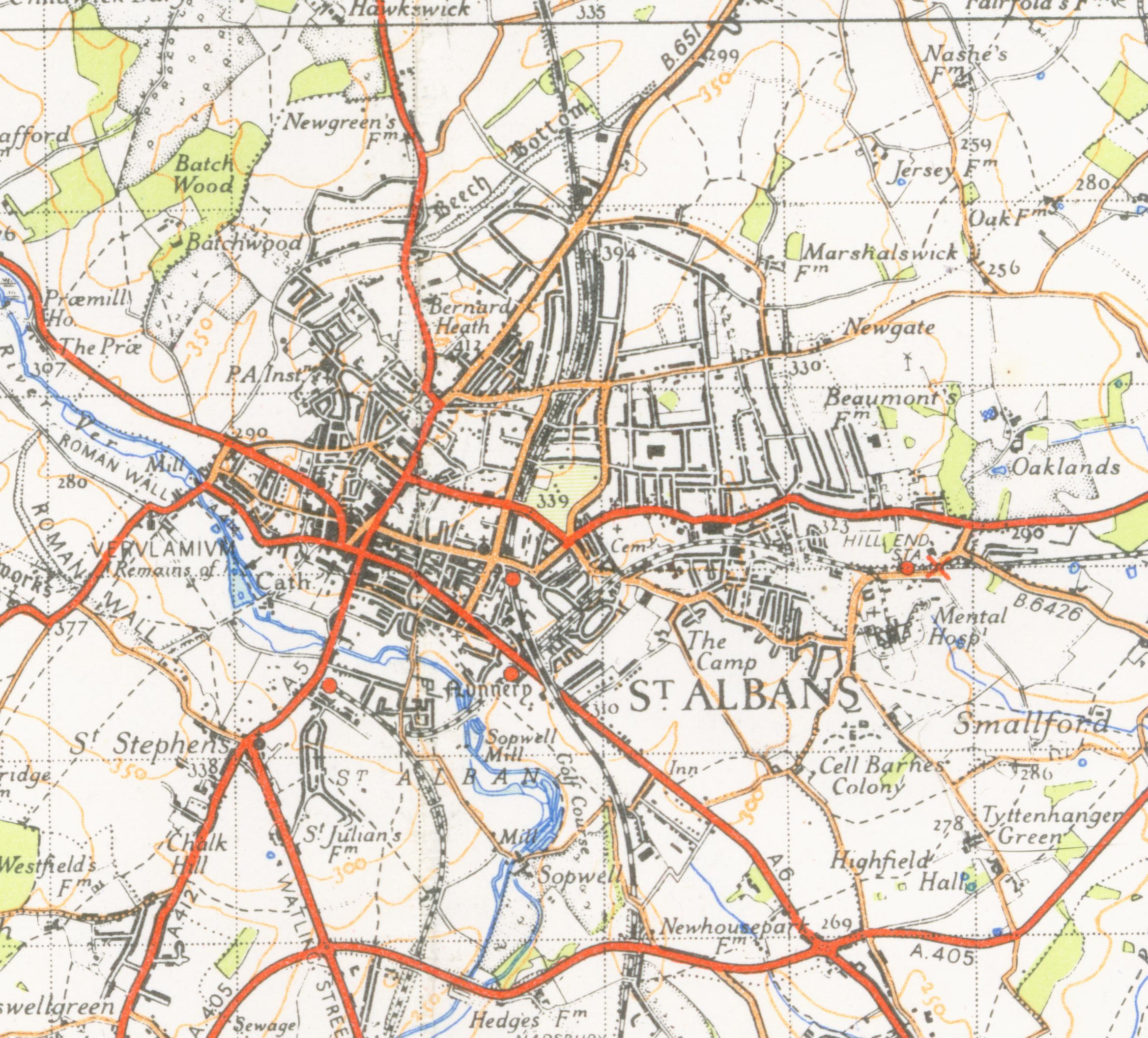 1 inch to the mile map of St Albans from 1944 scanned at 600 dpi sheet 160 london NE